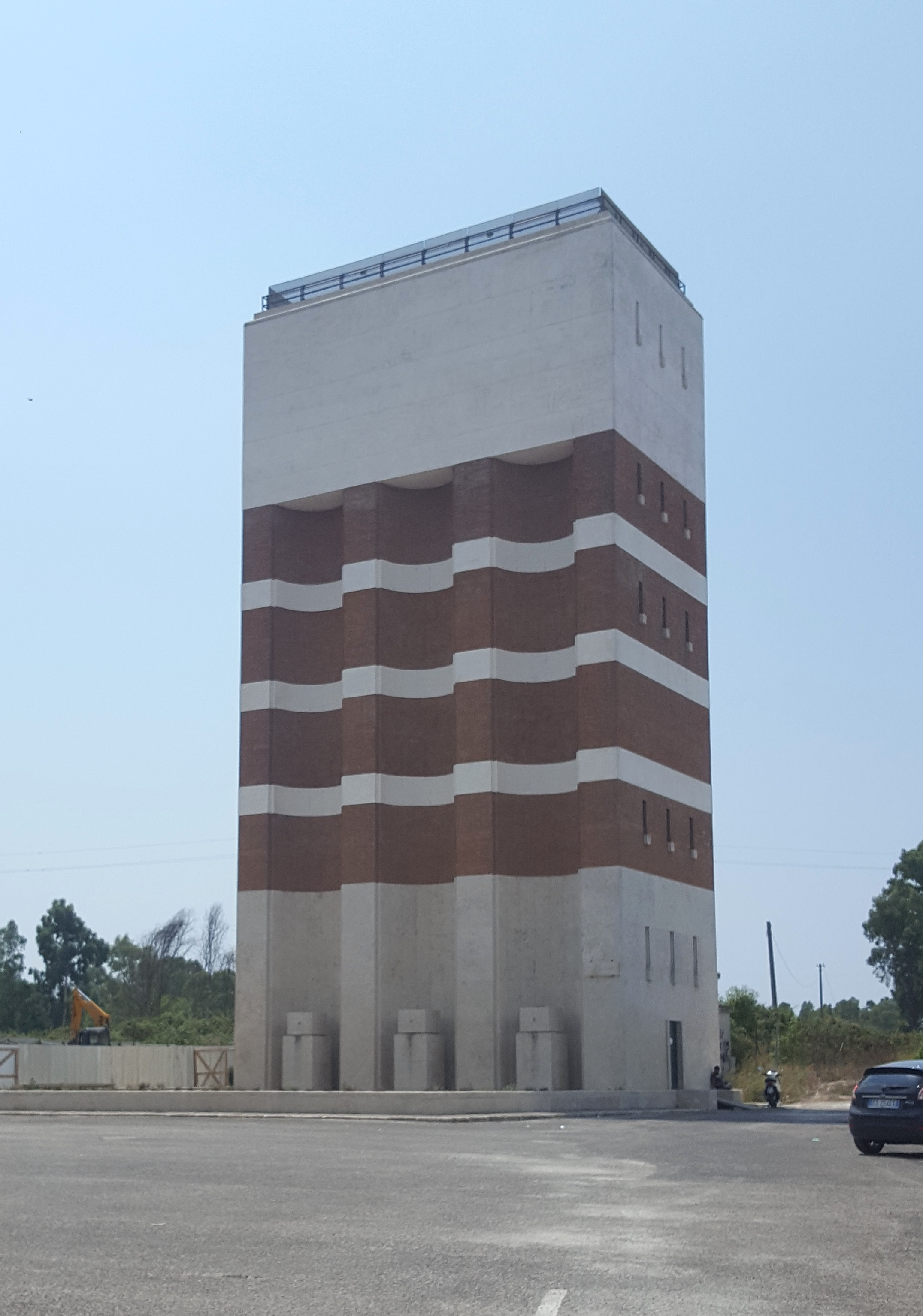 Pontinia - Water tower (1935)